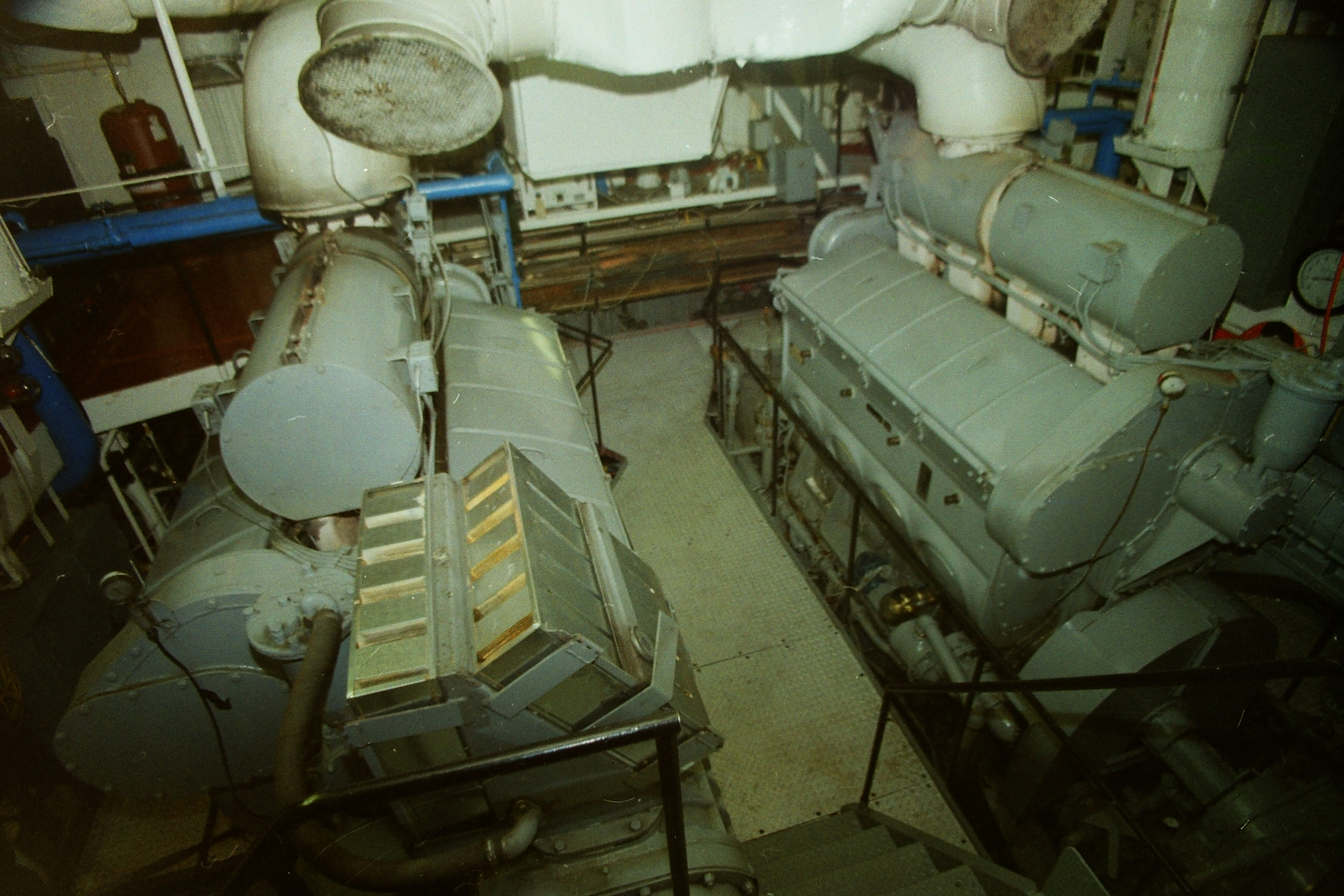 Engine Room EMD main engines